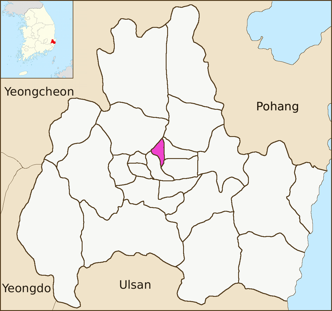 Map of Hwangseong-dong, an administrative division of Gyeongju, South Korea. Created by User:Visviva, redrawn by Kokiri